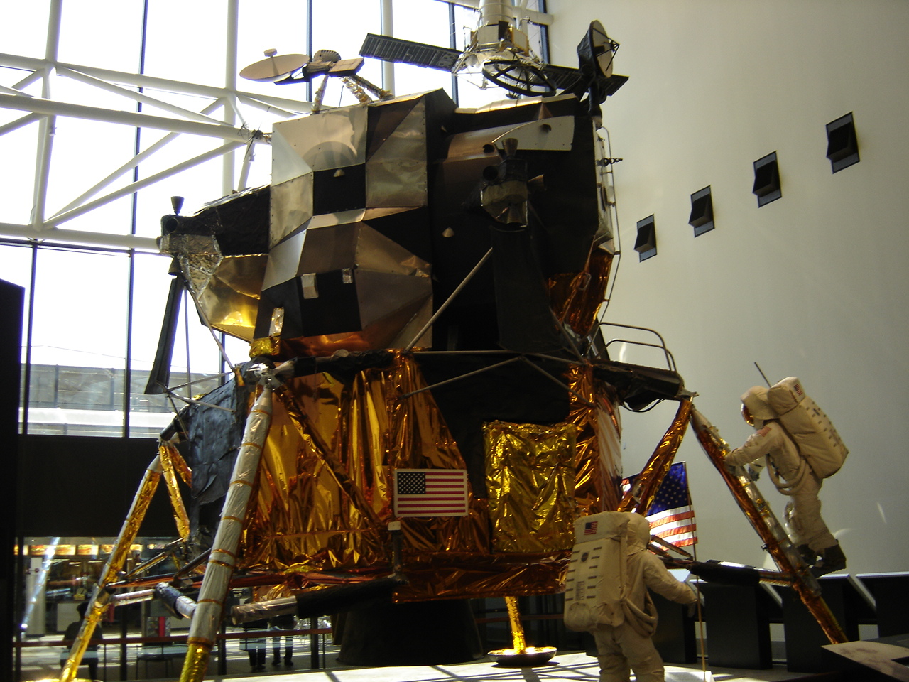 Lunar landing module replica at the National Air and Space Museum, Washington